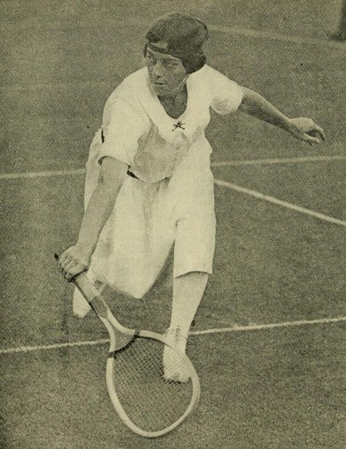 American tennis player Marion Zinderstein Jessup (1896–1980), around 1920.